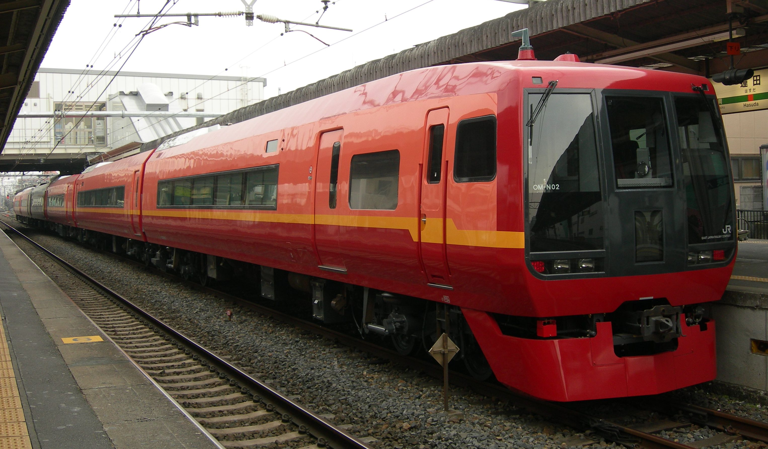 JR East 253-1000 series EMU set OM-N02 at Hasuda Station during test running